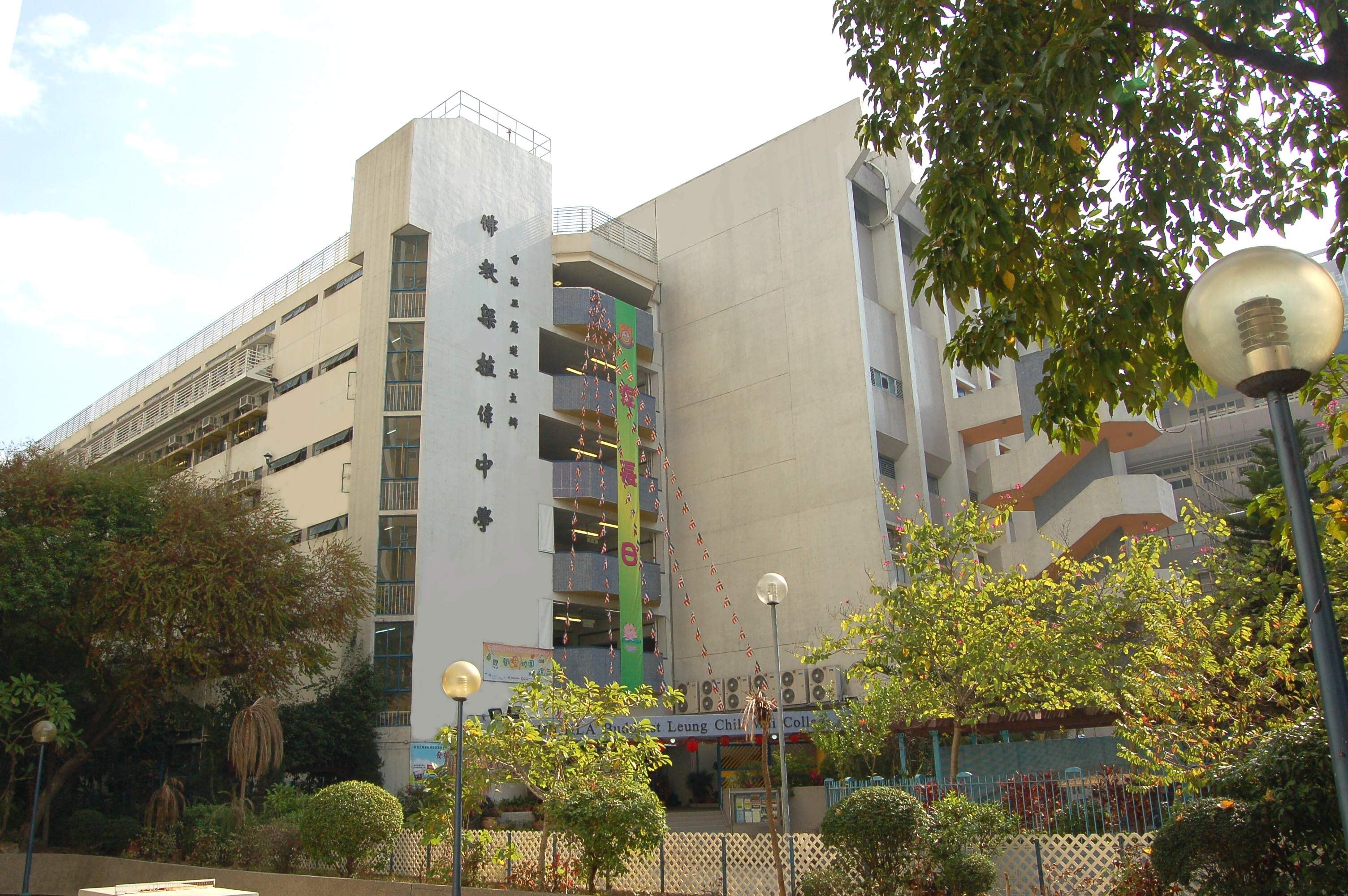 The above image is the outlook of HHCKLA Buddhist Leung Chik Wai College which is located in Tuen Mun, Hong Kong SAR